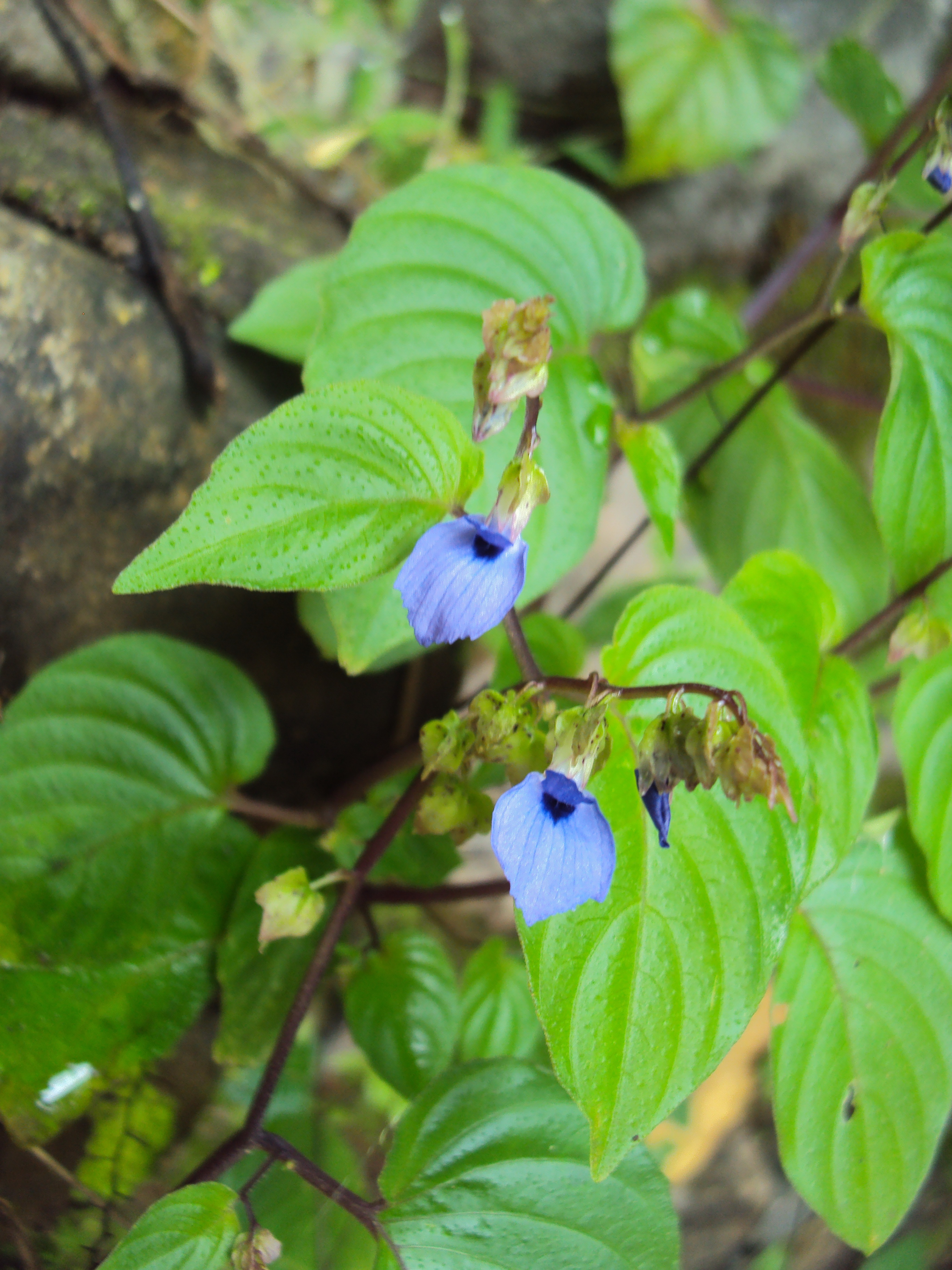 Rhynchoglossum obliquum